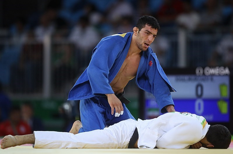 2016 Summer Olympics Judo, August 9